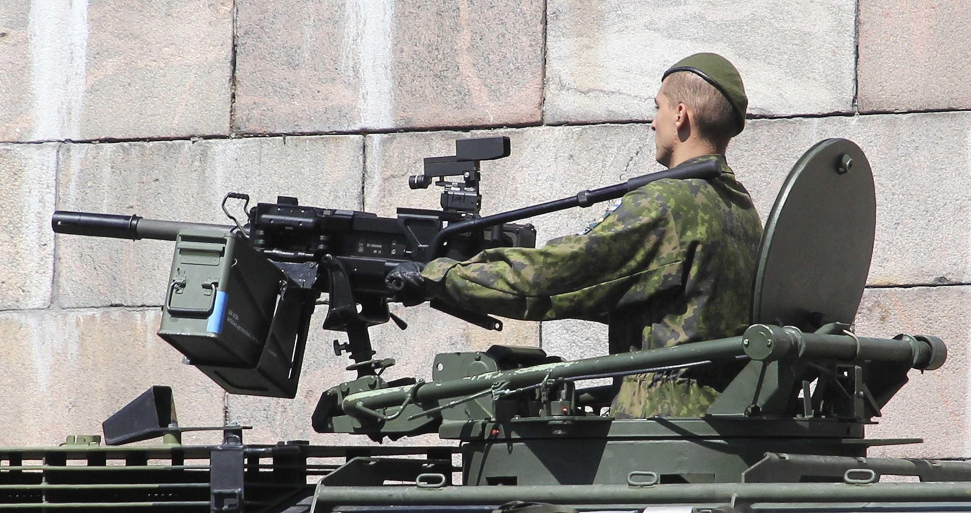 Finnish Defence Force Flag day parade in Helsinki Senate Square in 2012. Pasi armoured personnel carrier Heckler & Koch GMG automatic grenade launcher.